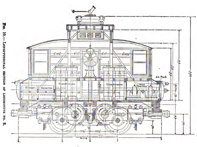 Technical drawing of an electric locomotive designed and built by Bion J. Arnold for the Lansing, St. Johns and St. Louis Railway.